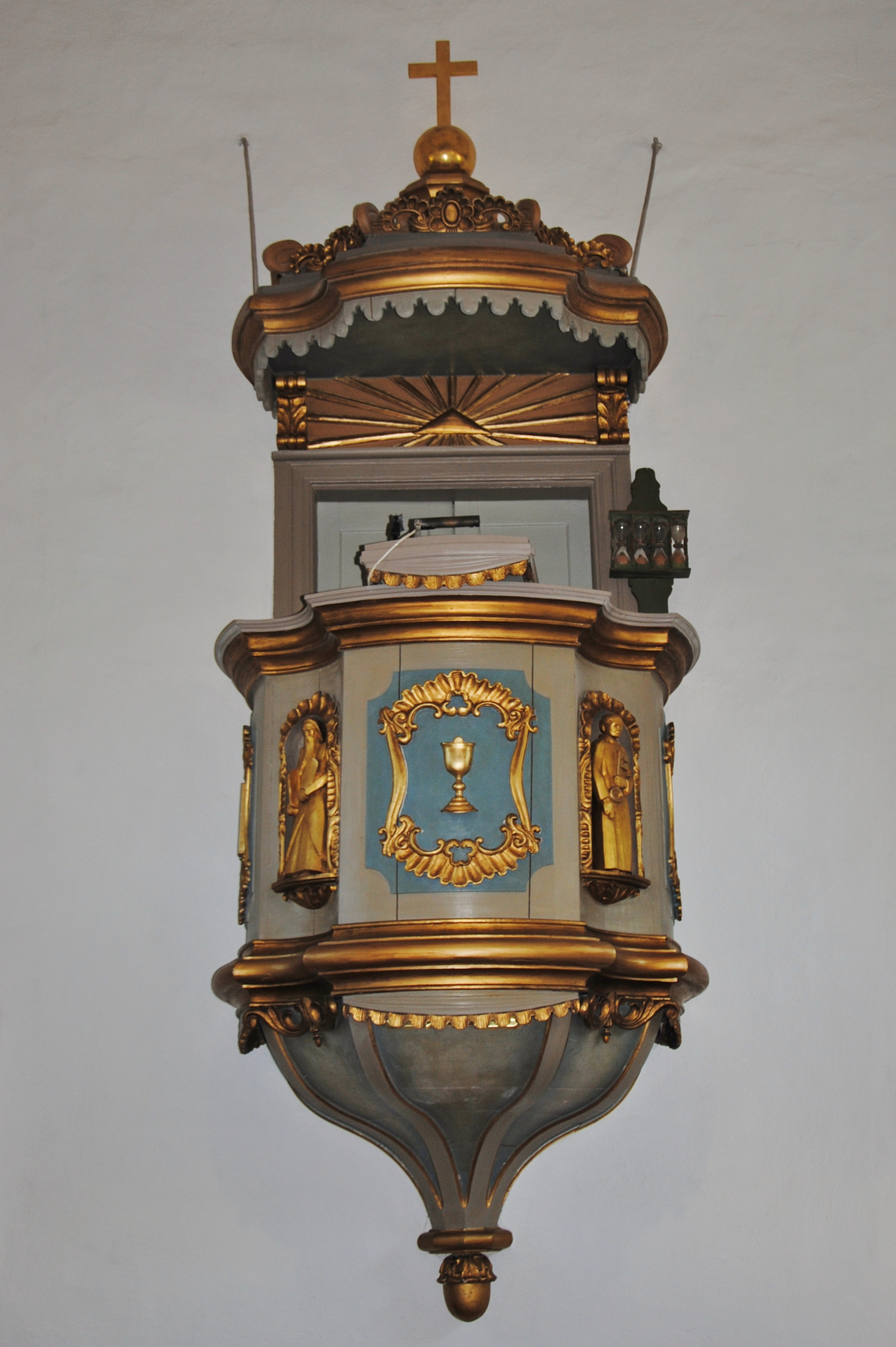 Ventlinge Church. The pulpit.